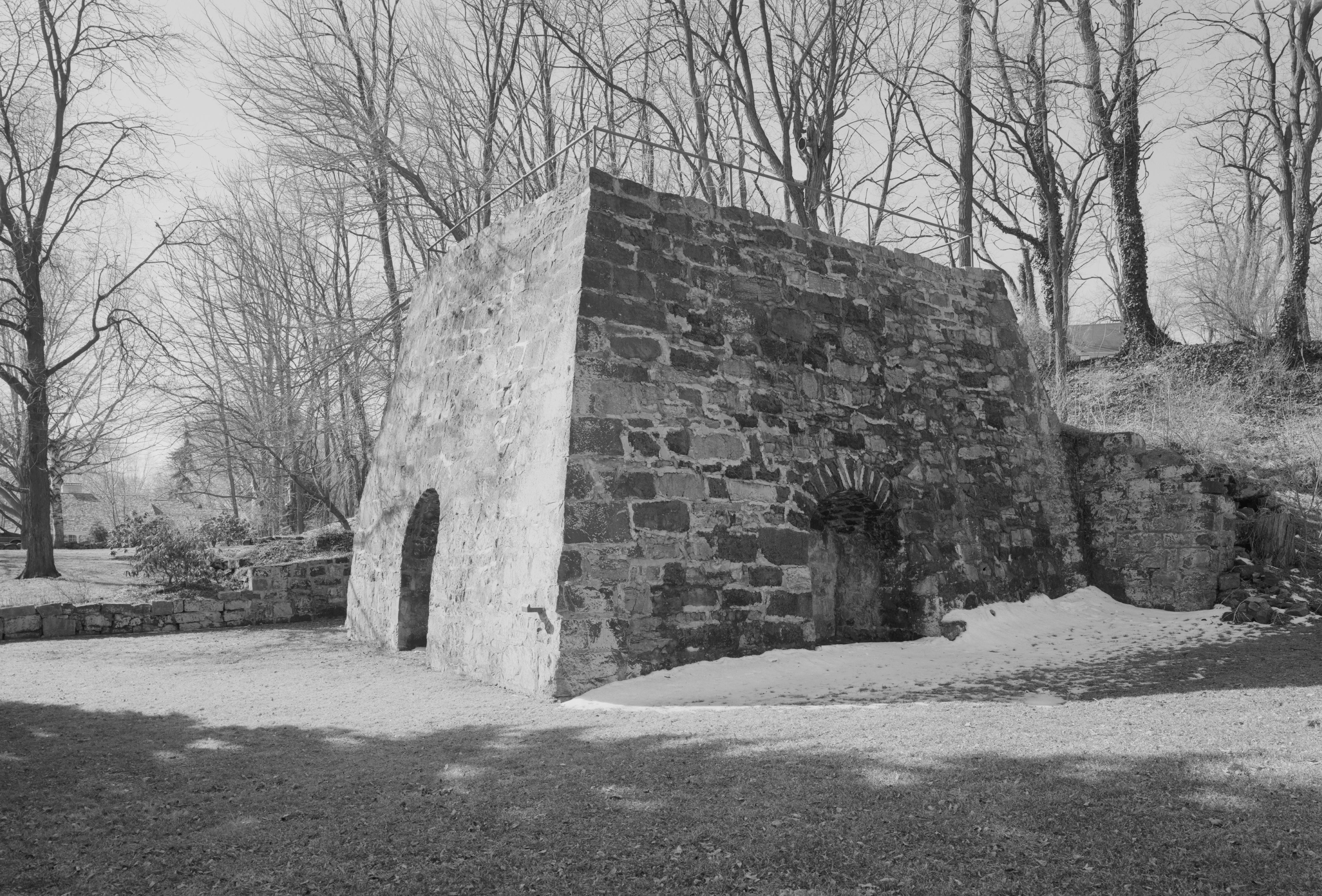 Northern and eastern sides of the Allegheny Furnace, located at 3400 Crescent Road in Altoona, Pennsylvania, United States. Built in 1811, it is listed on the National Register of Historic Places.